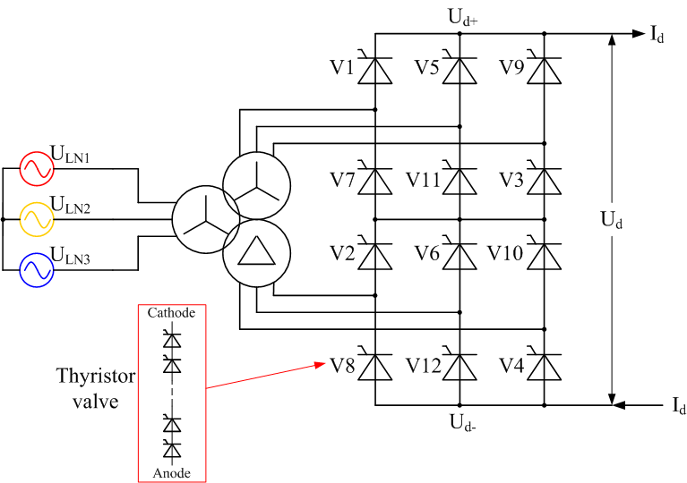 Schematic representation of a typical 12-pulse HVDC converter using thyristor valves